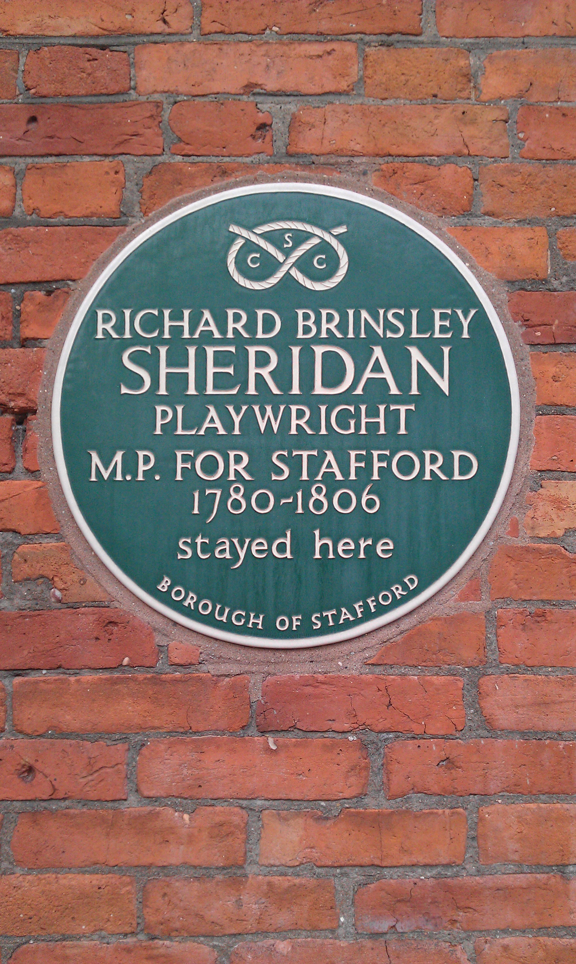 Plaque commemorating Richard Brinsley Sheridan on Stafford's former Head Post Office, Staffordshire, England. Below the Staffordshire County Council logo, featuring the Stafford knot, it reads "Richard Brinsley Sheridan playwright - M.P. for Stafford 1780-1806 stayed here - Borough of Stafford" See also File:Richard Brinsley Sheridan plaque at Stafford Post Office 01.jpg